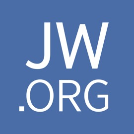 Official website of the Jehovah's Witnesses.